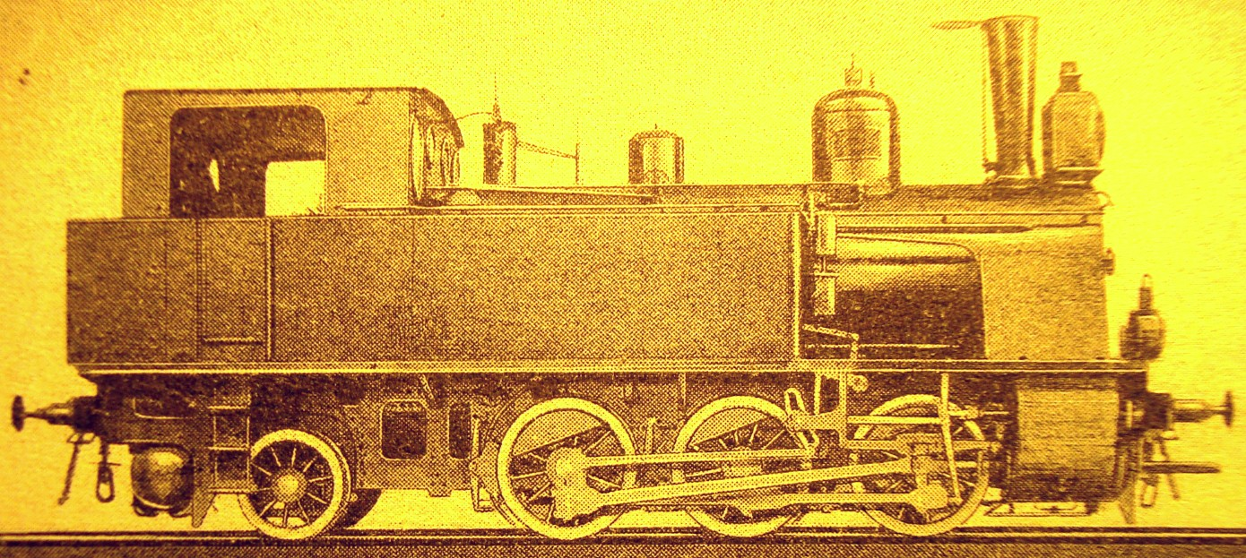 Russian tank loc type 147 by Kolomna Works